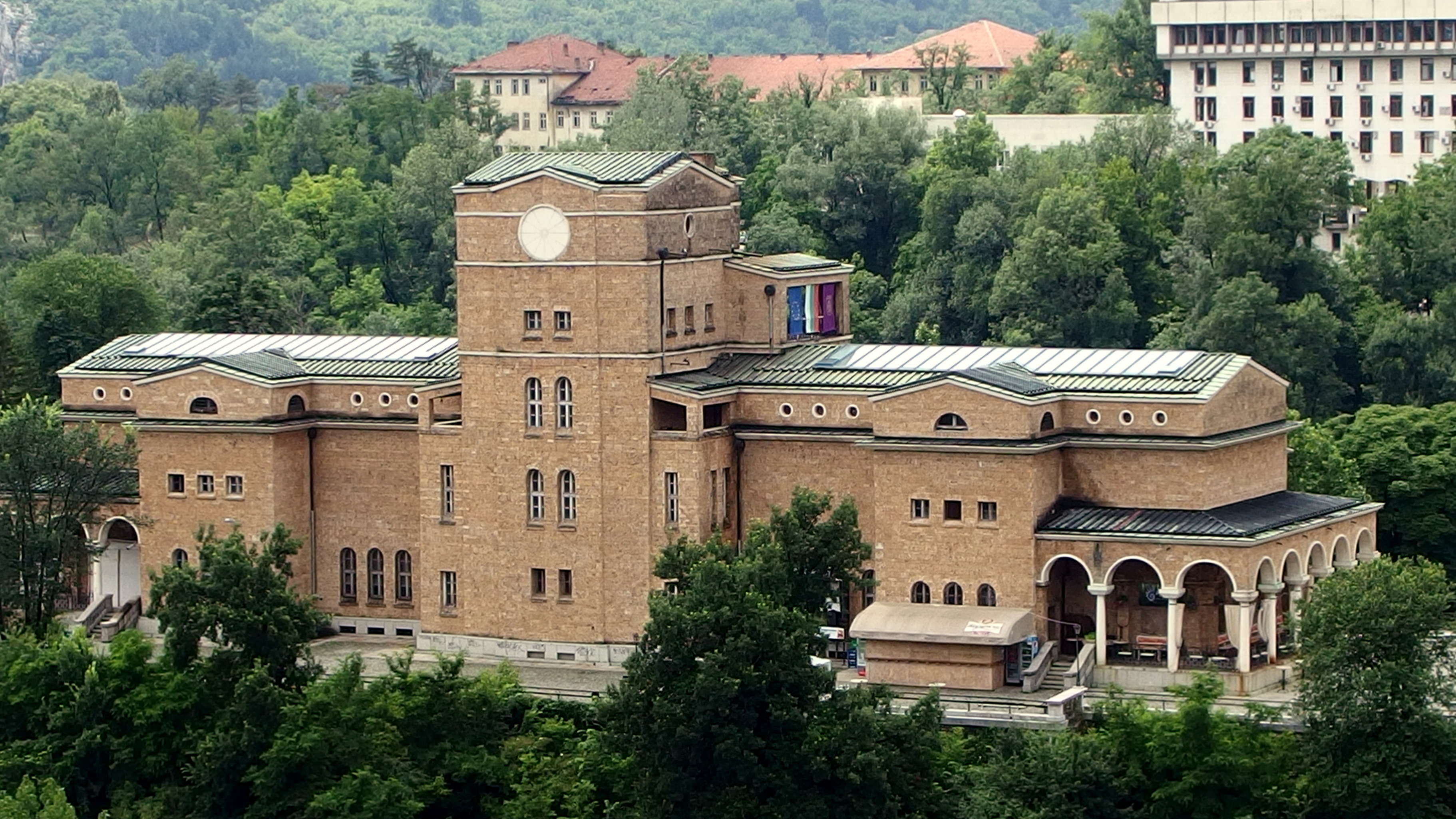 2014-06-20 in Veliko Tarnovo.